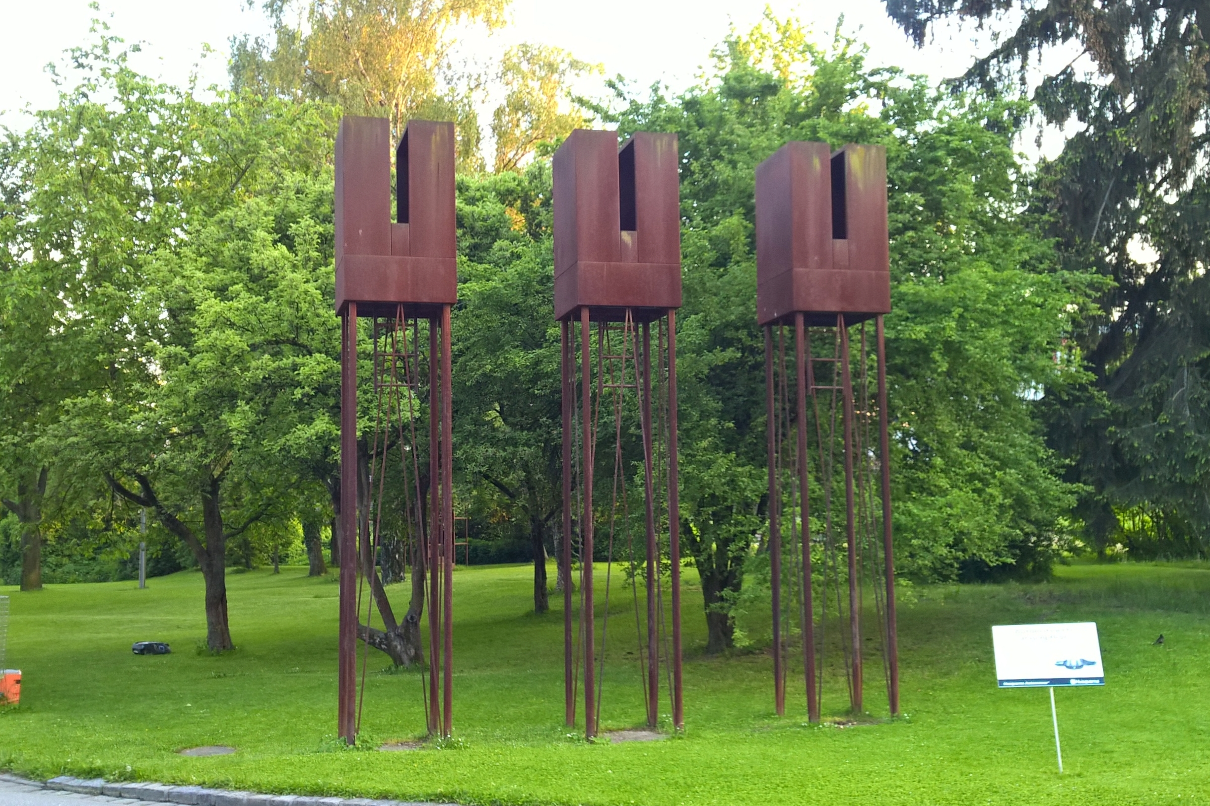 'Hochstände' by Stefan Brandtmayr, in front of the Posthof, Linz